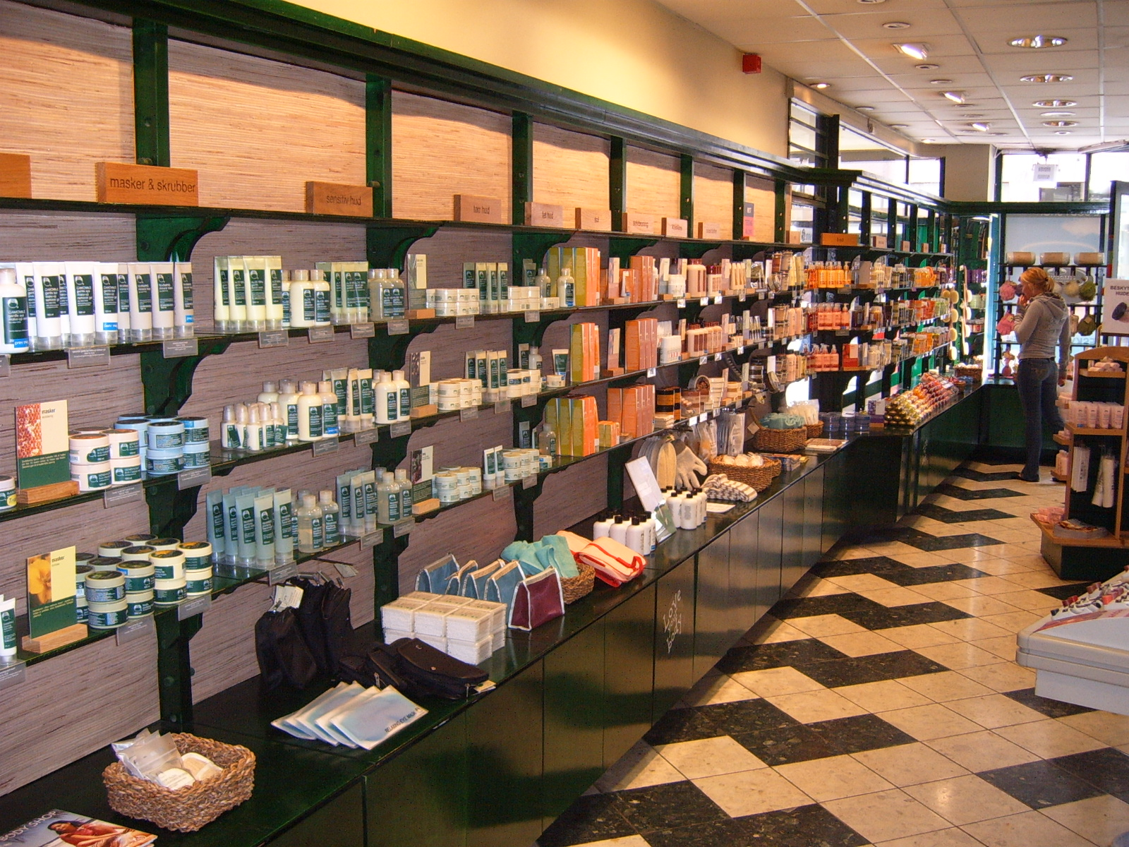 Interior of The Body Shop store in Oslo, Norway